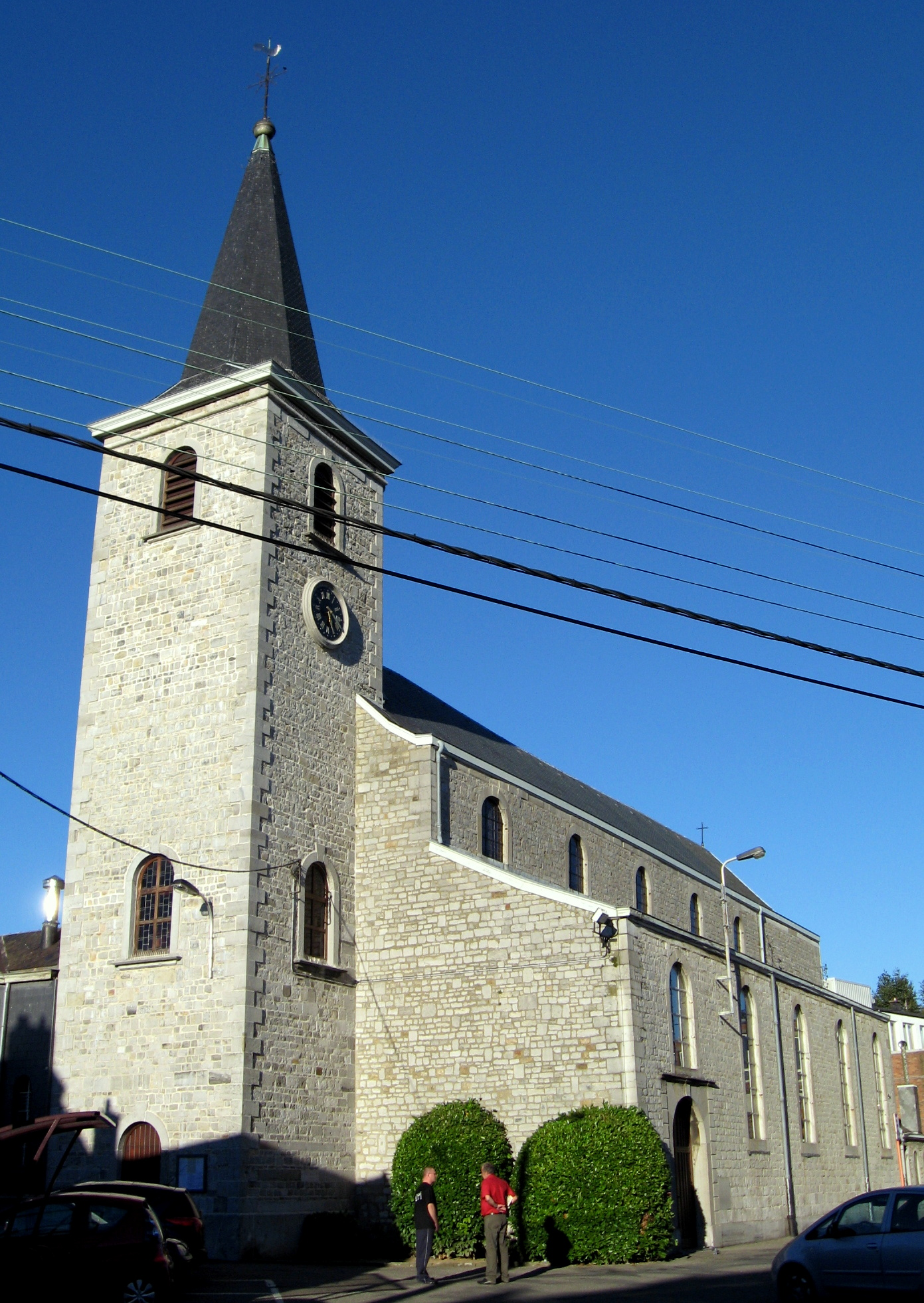 Church of Saint Nicholas in Stembert, Verviers, Liège, Belgium